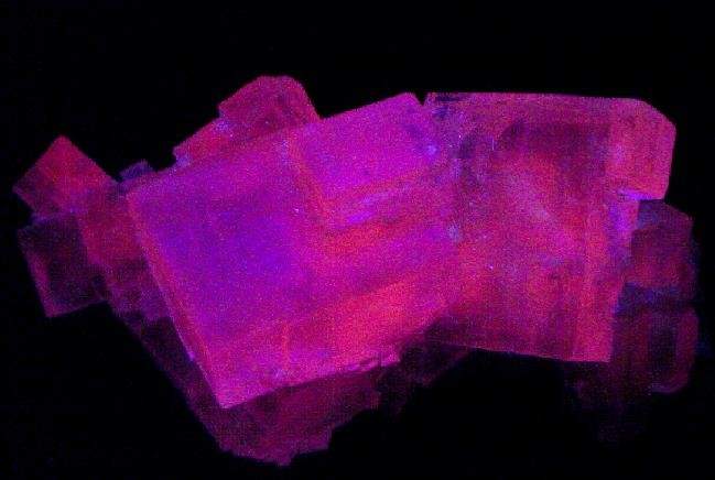 Halite Locality: Wieliczka Mine, Wieliczka, Małopolskie, Poland (Locality at ) Size: 11.0 x 6.8 x 4.0 cm. This venerable old salt mine was mined for many hundreds of years (from the 13th century), but has been closed for a long time; therefore this is an old specimen. This is a superb cabinet example of the high quality specimens that this deposit has produced. Large, lustrous, transparent, colorless, halite cubes to 3.5 cm, are aesthetically and sculpturally attached to bit of shale matrix. Adding to this impressive piece are several smaller halite crystals which frame the two larger crystals. It also exhibits wonderful pinky orange fluorescence. Ex. Dave Stoudt Collection.